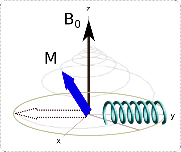 NMR relaxation